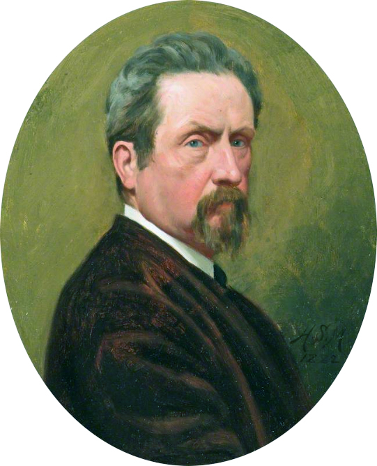 Self portrait oil on canvas 34.5 x 29.7 cm signed b.r.: H.S.M / 1882